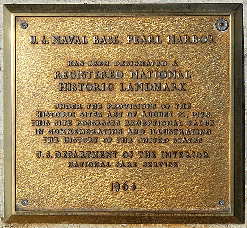 engl. Historic Landmark Pearl Harbor of Hawaii de. Historische Landmarke in Pearl Harbor auf Hawaii